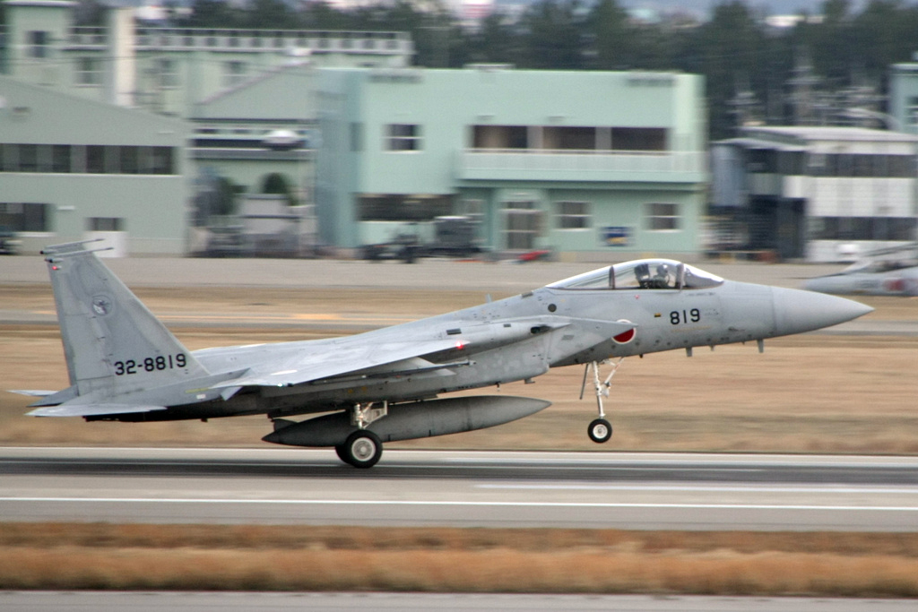 F-15J (32-8819) of 303 Squadron practices landing at Komatsu Air Base.